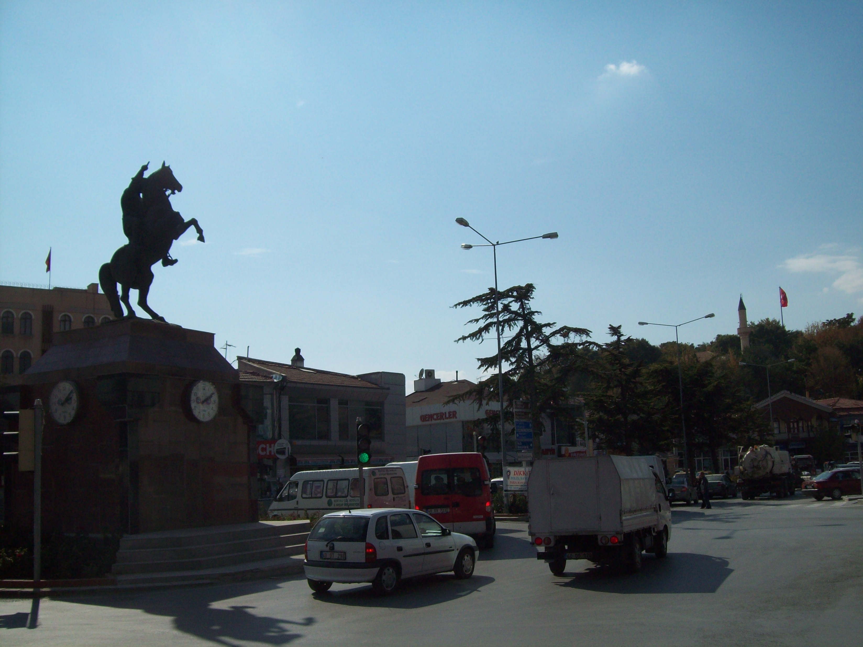 City center, Kirsehir